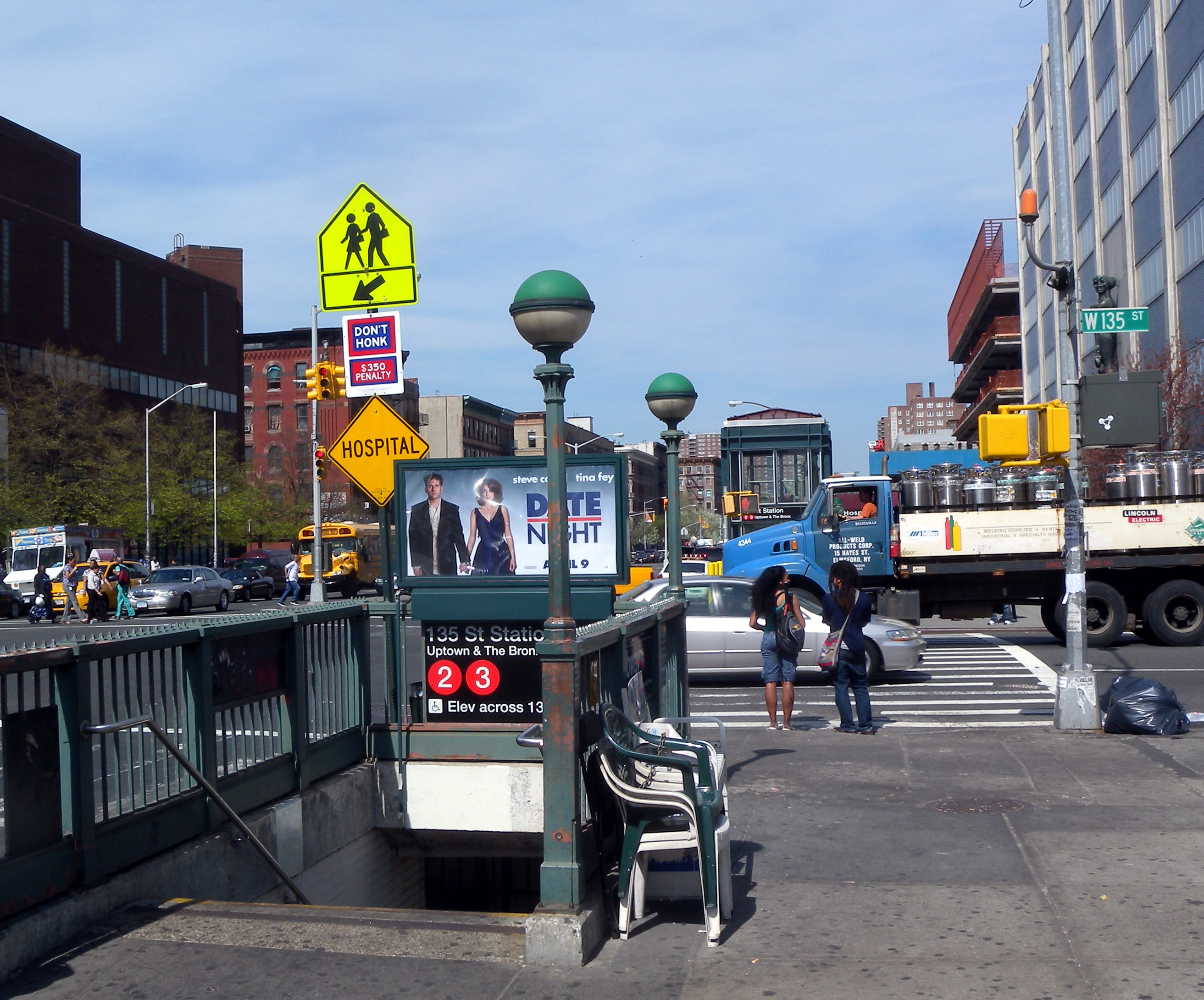 Looking north at northbound stair of en:135th Street (IRT Lenox Avenue Line) on a sunny midday.